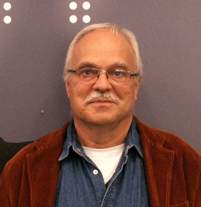 At the Göteborg Book Fair 2014.